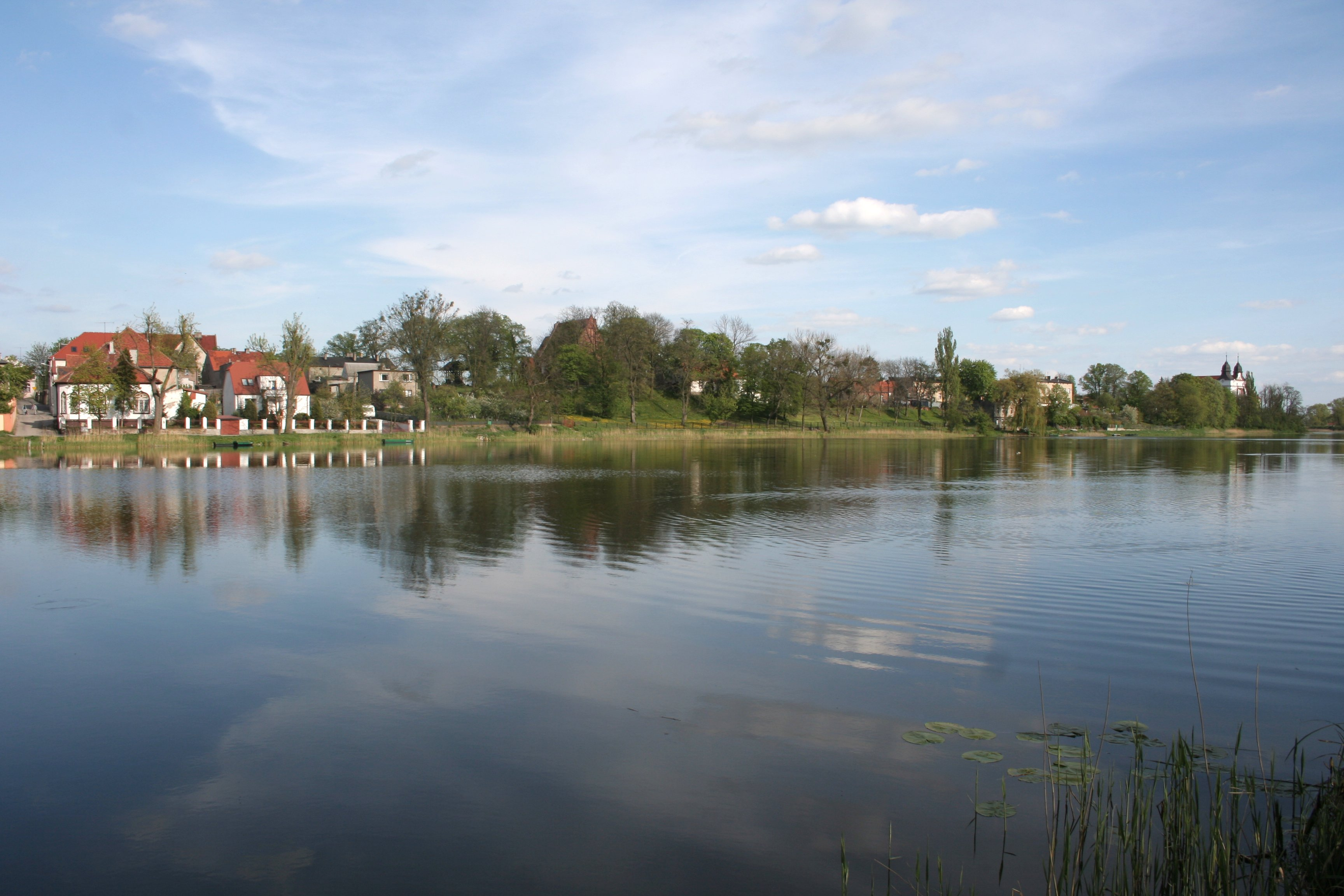 Mogilno, panorama of the city from west bank of Mogileńskie Lake. In the center the church of St. James, on the right church of St. John.